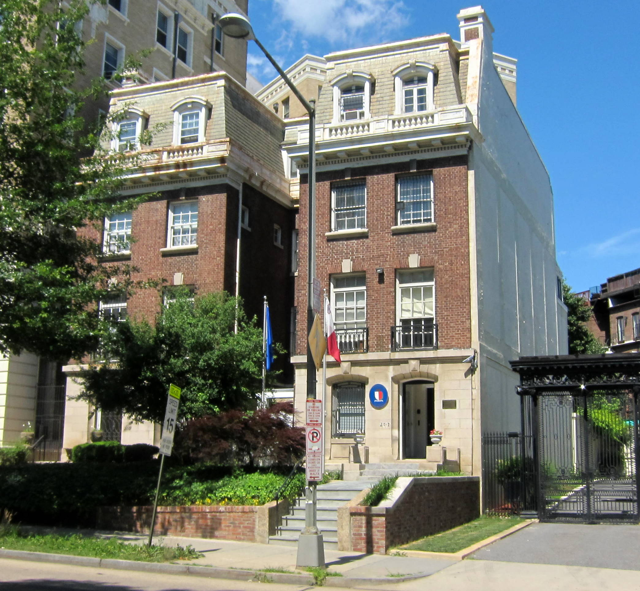 The Embassy of Malta located at 2017 Connecticut Avenue, N.W., in the Kalorama neighborhood of Washington, D.C. Built in 1903 to the designs of noted architect Waddy B. Wood, 2017 and 2019 Connecticut Avenue (historically known as the Wood-Deming Houses) are examples of Colonial Revival architecture. The Embassy of Malta is designated as a contributing property to the Kalorama Triangle Historic District, listed on the National Register of Historic Places in 1987.